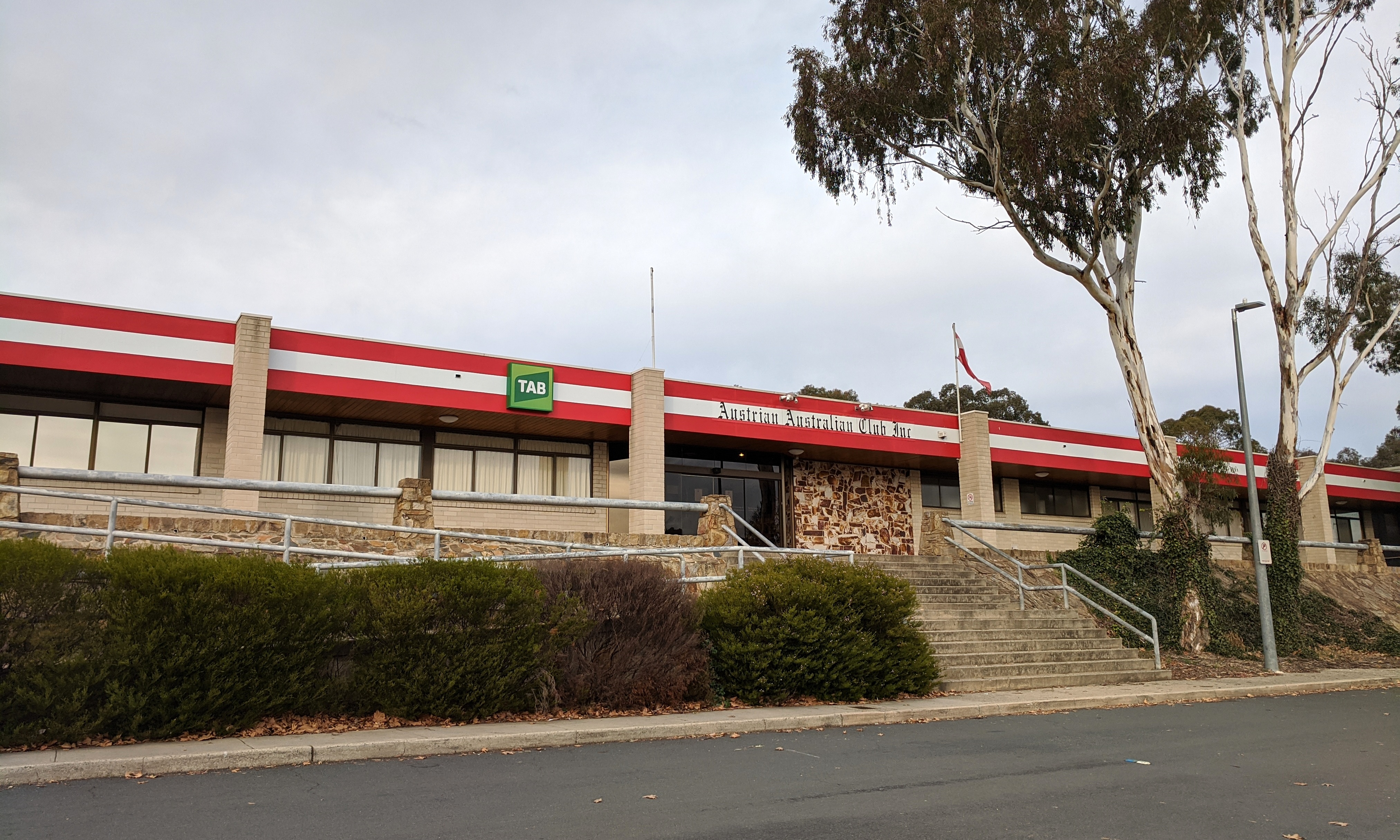 The Austrian Australian club in Mawson